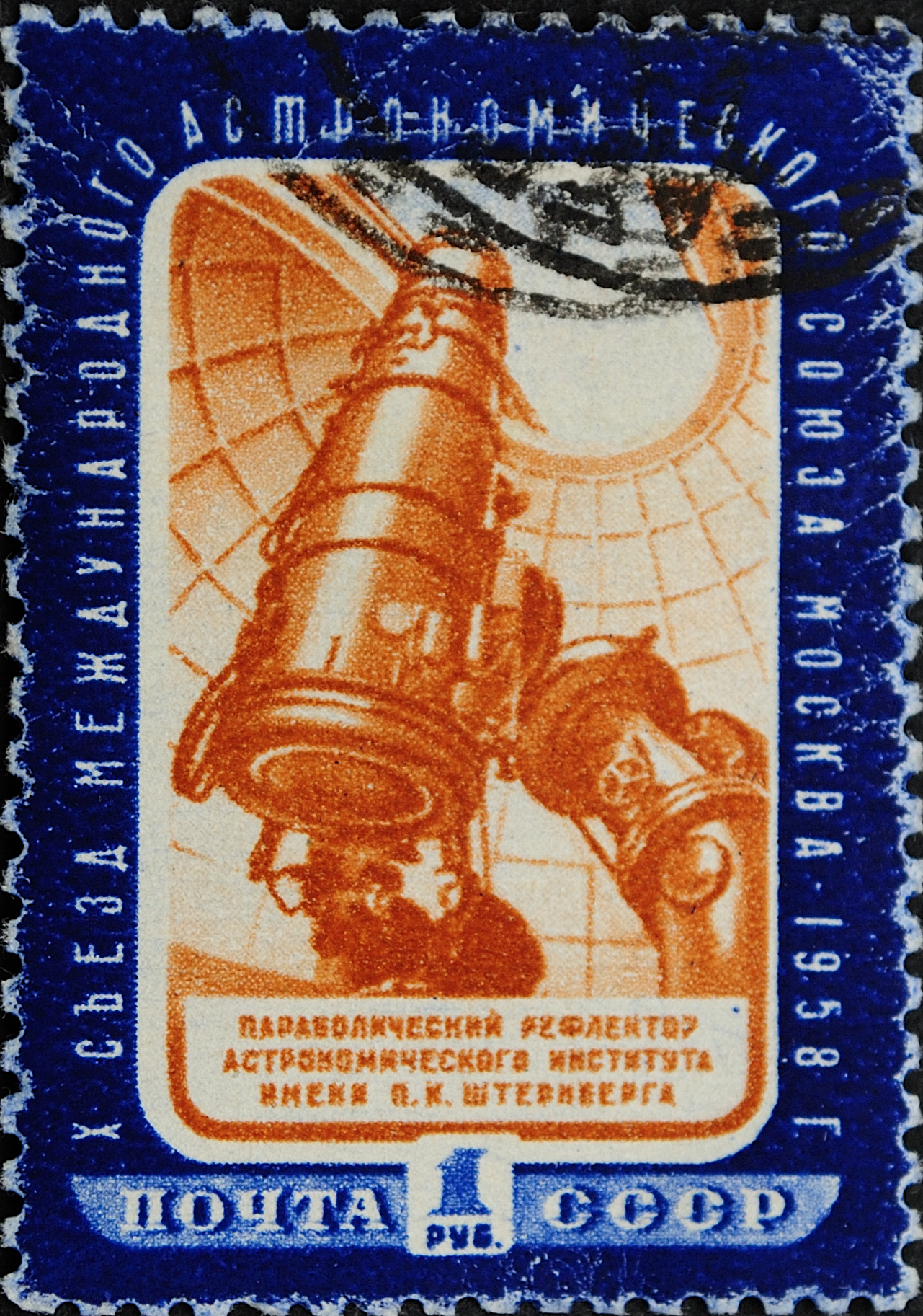 1 rubl postage stamp, USSR 1958, telescope at Sternberg Astronomical Institute